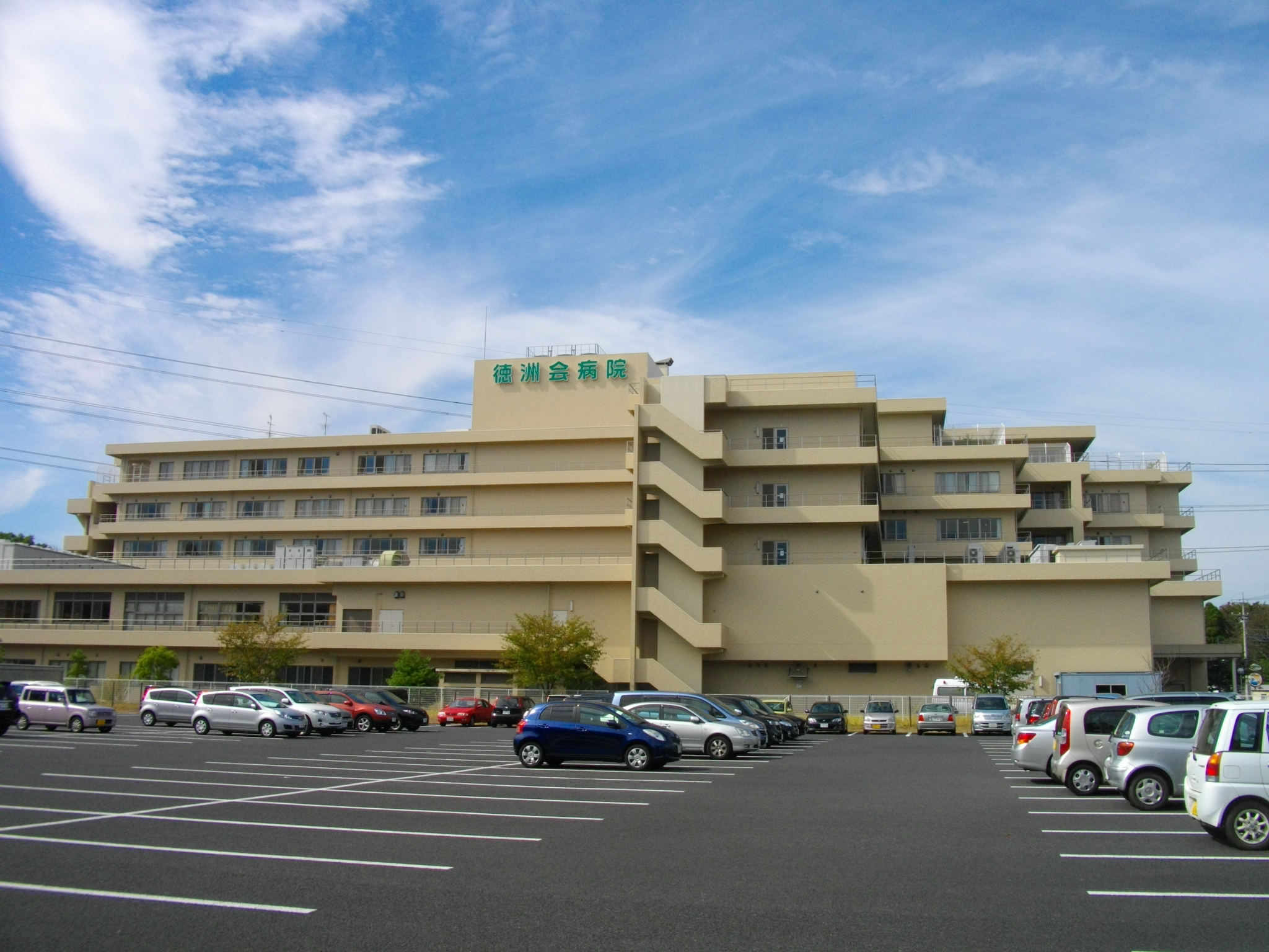 Yotsukaidou Tokushukai Medical Center